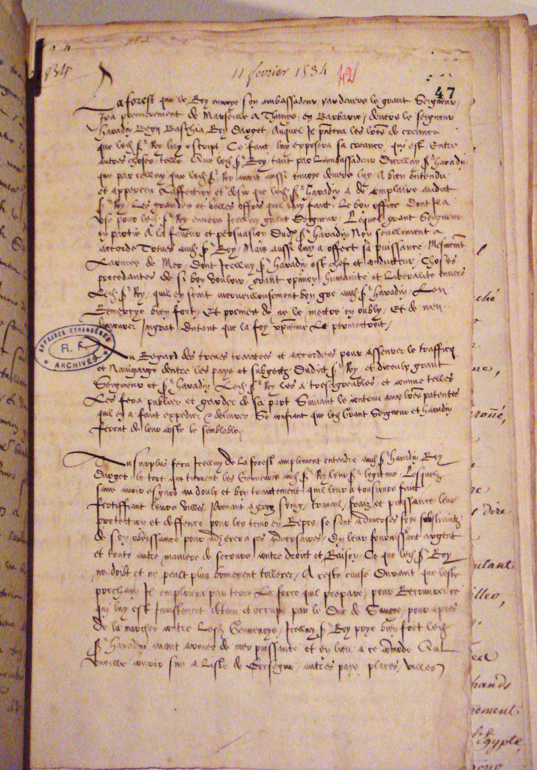 Military_instructions_to_Jean_de_la_Foret_by_Chancelier_Antoine_Duprat_copy_11_February_1534.